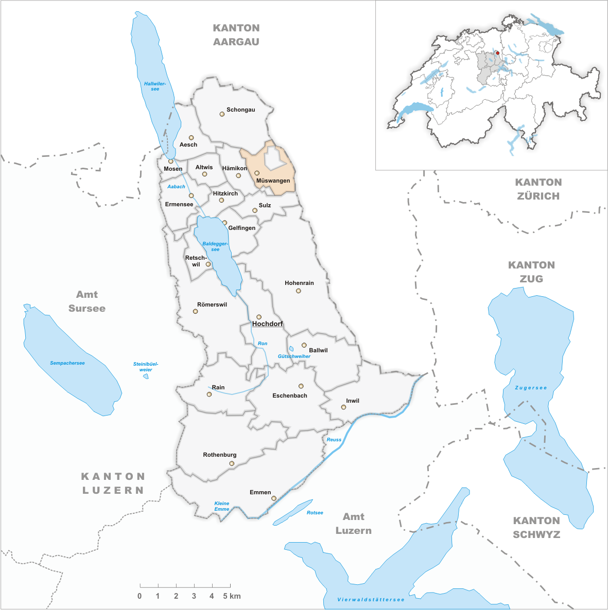 Municipality Müswangen